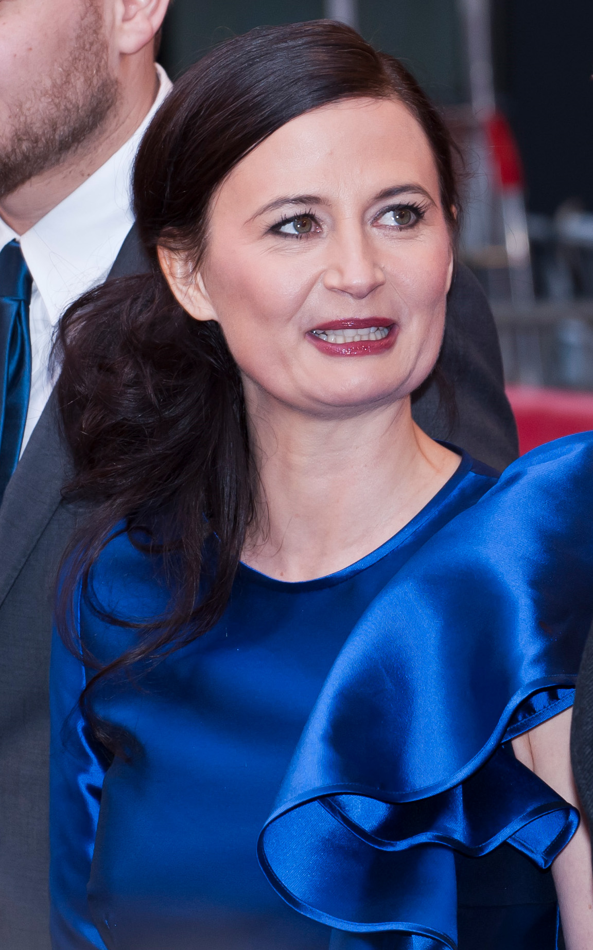 Pernille Fischer Christensen at the Premiere of her movie "EN FAMILIE" (A Family) at the Berlinae Palast February 19th, 2010